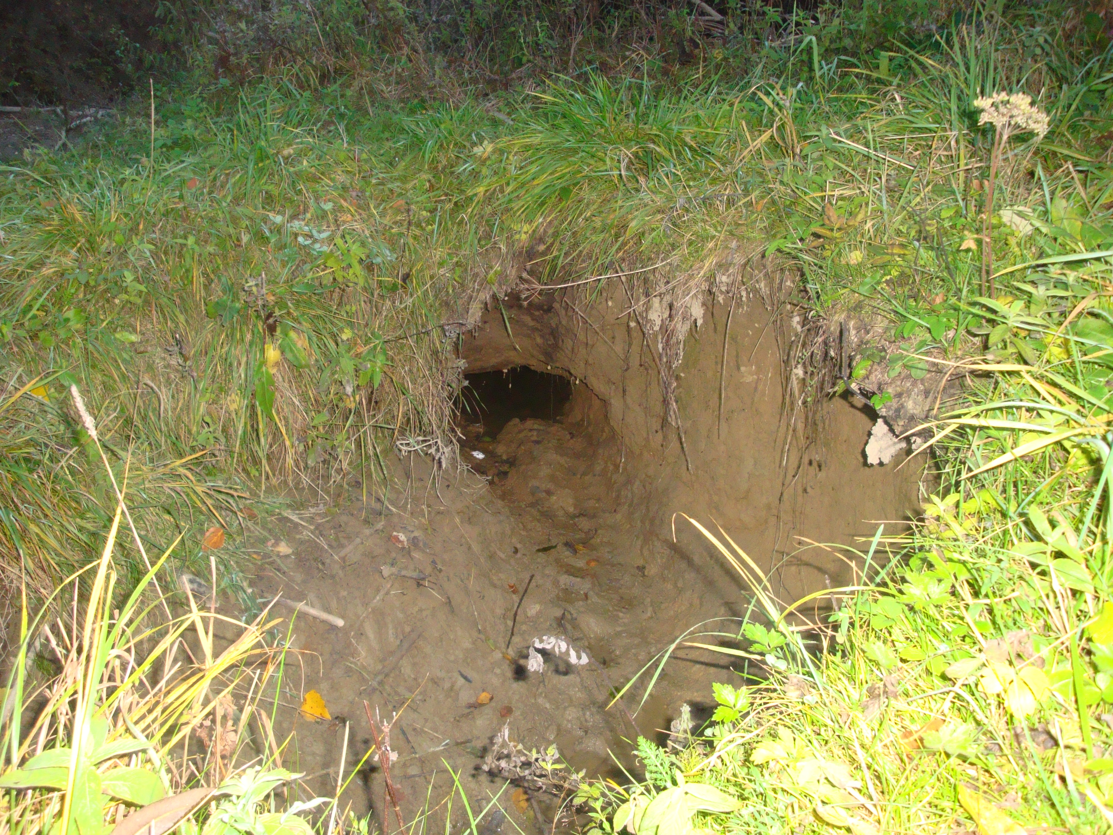 Beaver burrow near Myczków, Poland